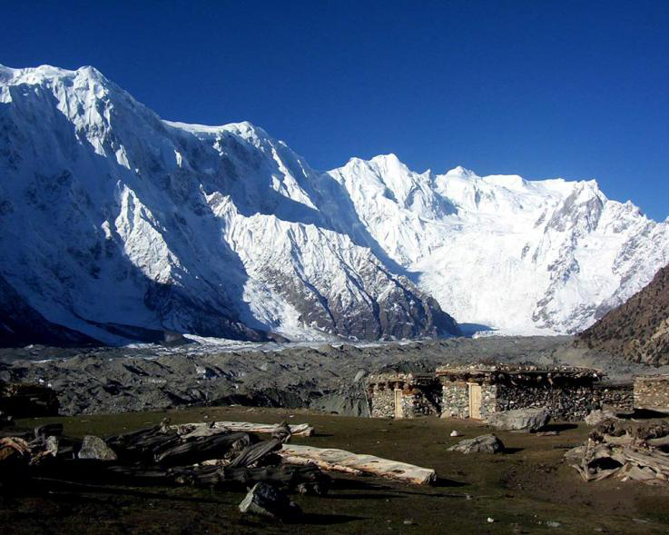 Passu Hunza